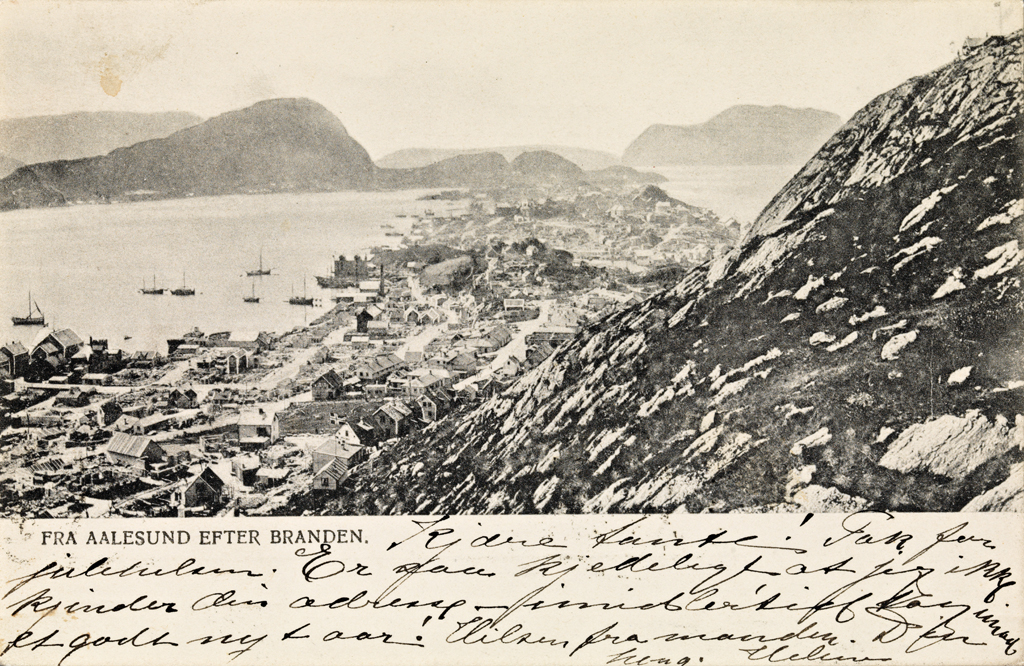 Tittel / Title: Fra Aalesund efter Branden Motiv / Motif: Postkort. Den store bybrannen i Ålesund fant sted natt til 23. januar 1904. Dato / Date: 1904 Fotograf / Photographer: ukjent Utgiver / Publisher: M. B. Rønneberg Sted / Place: Møre og Romsdal, Ålesund Eier / Owner Institution: Nasjonalbiblioteket / National Library of Norway Lenke / Link: Bildesignatur / Image Number: blds_03801